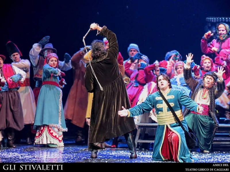 Cherevichki by Tchaikovsky: Ivaylo Mihaylov as Vakula